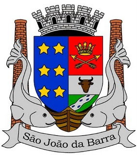 Brasão do município de São João da Barra